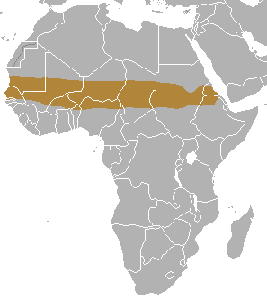 Pale Fox range